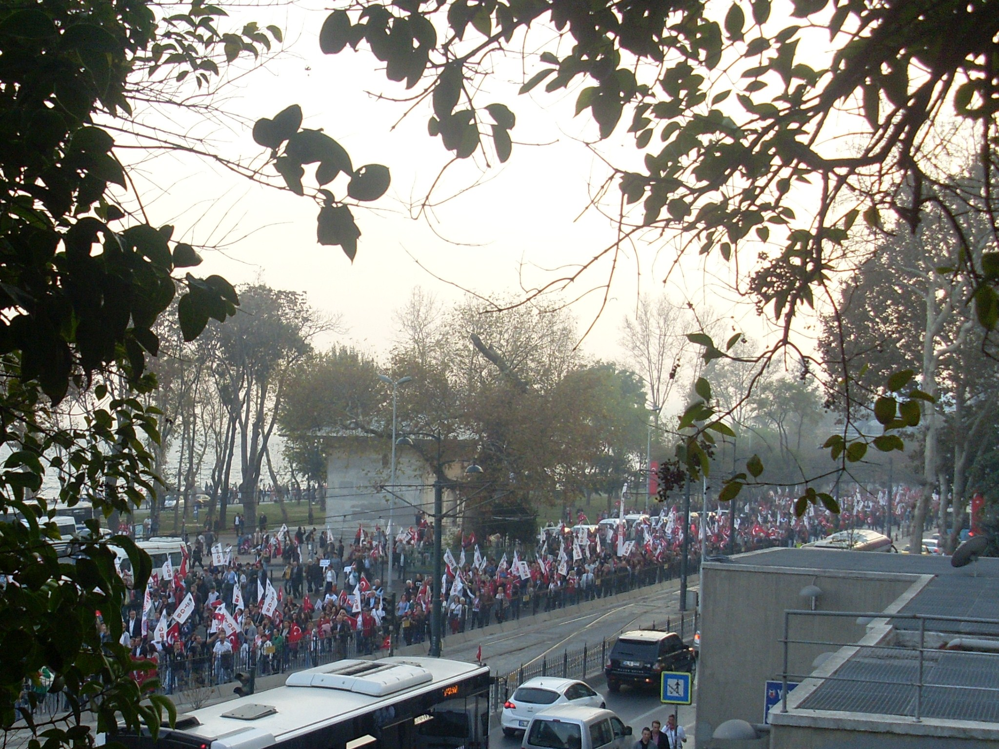 Youth Union of Turkey (Türkiye Gençlik Birliği, TGB) march 29 Oct 2013 Meclis-i Mebusan Cad Fındıklı-Kabataş İstanbul